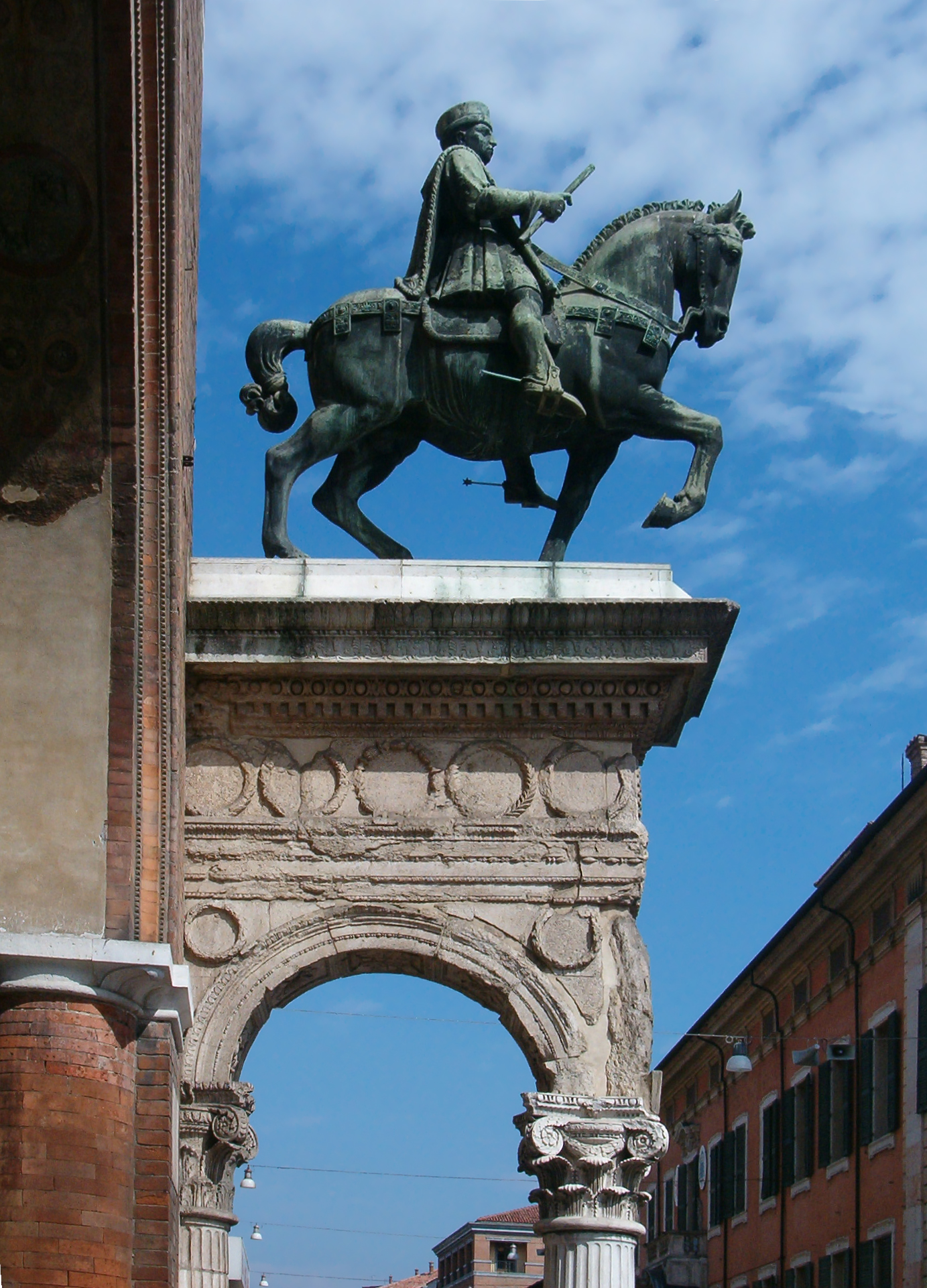 The 20th century replica, before the Palazzo Municipale (Town Hall) of Ferrara (Italy), of the 15th century equestrian bronze monument to Niccolò III of Este. It is given to Leon Battista Alberti.